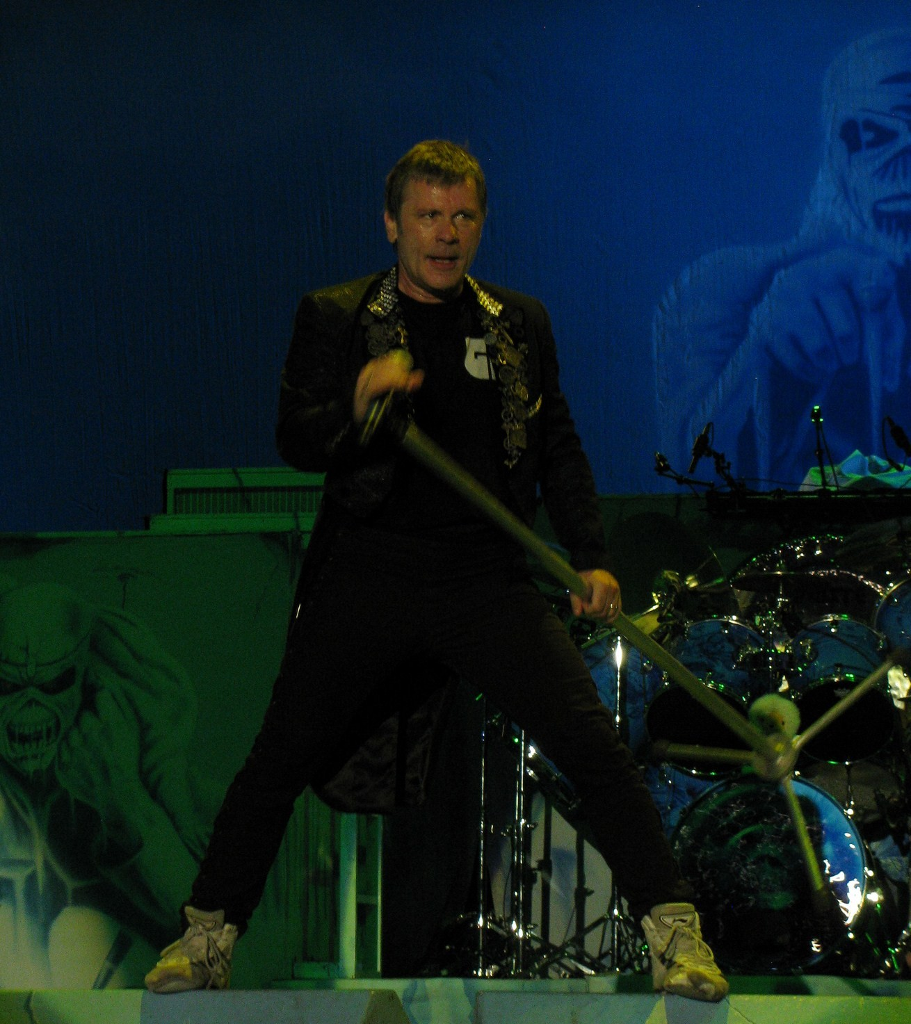 Iron Maiden performing at the 2012 Ottawa Bluesfest